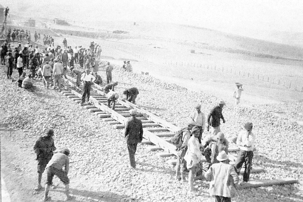 Transiranian railway